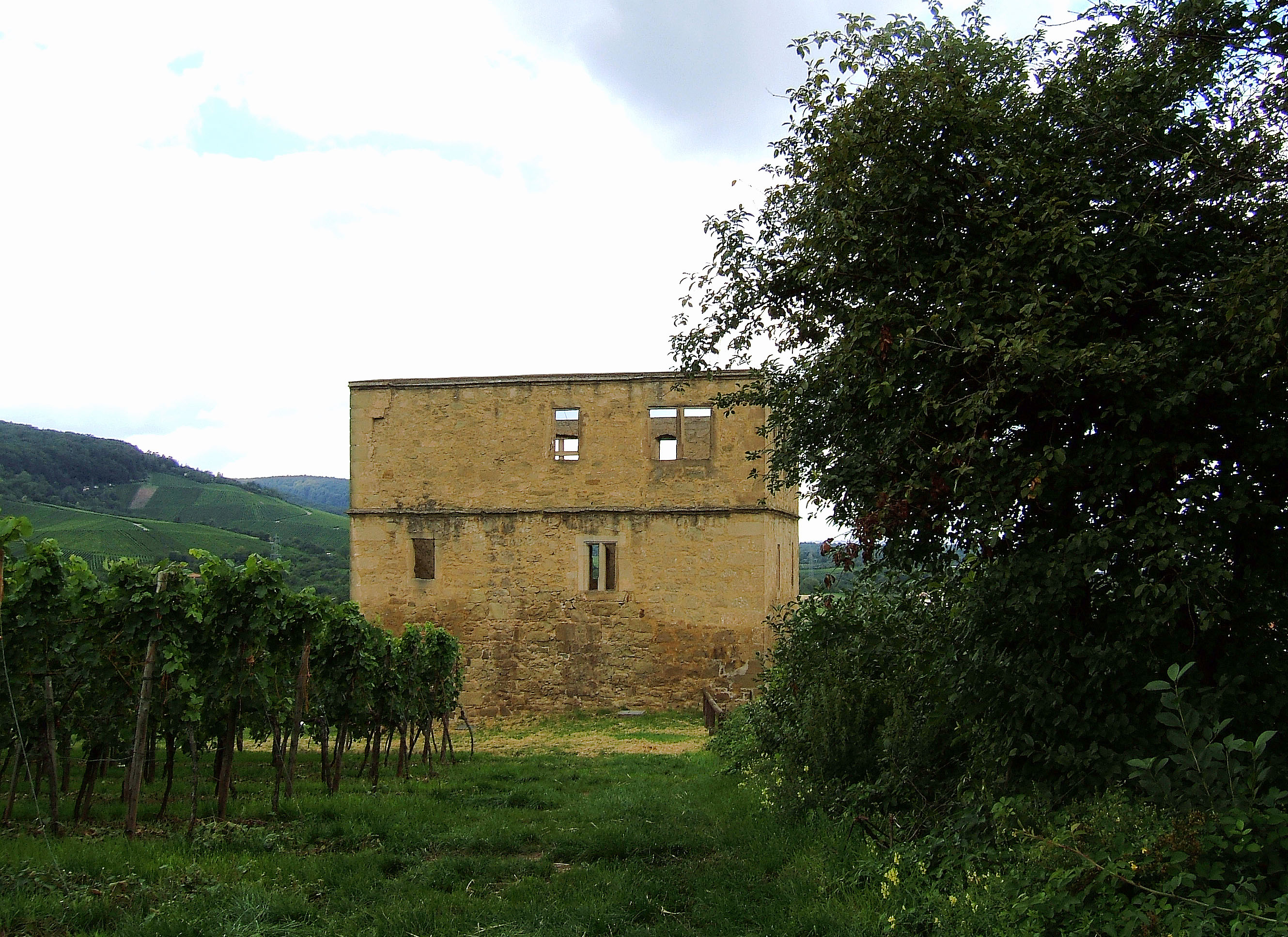 Y-Burg, a ruin in Germany